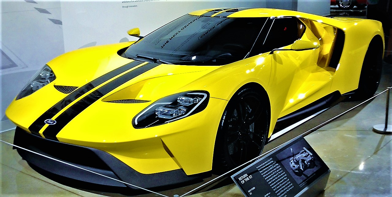 Ford GT prototype